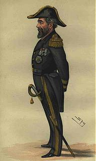 Caricature of Admiral Sir Anthony Hiley Hoskins GCB (1828-1901). Caption read "Naval Reserves".